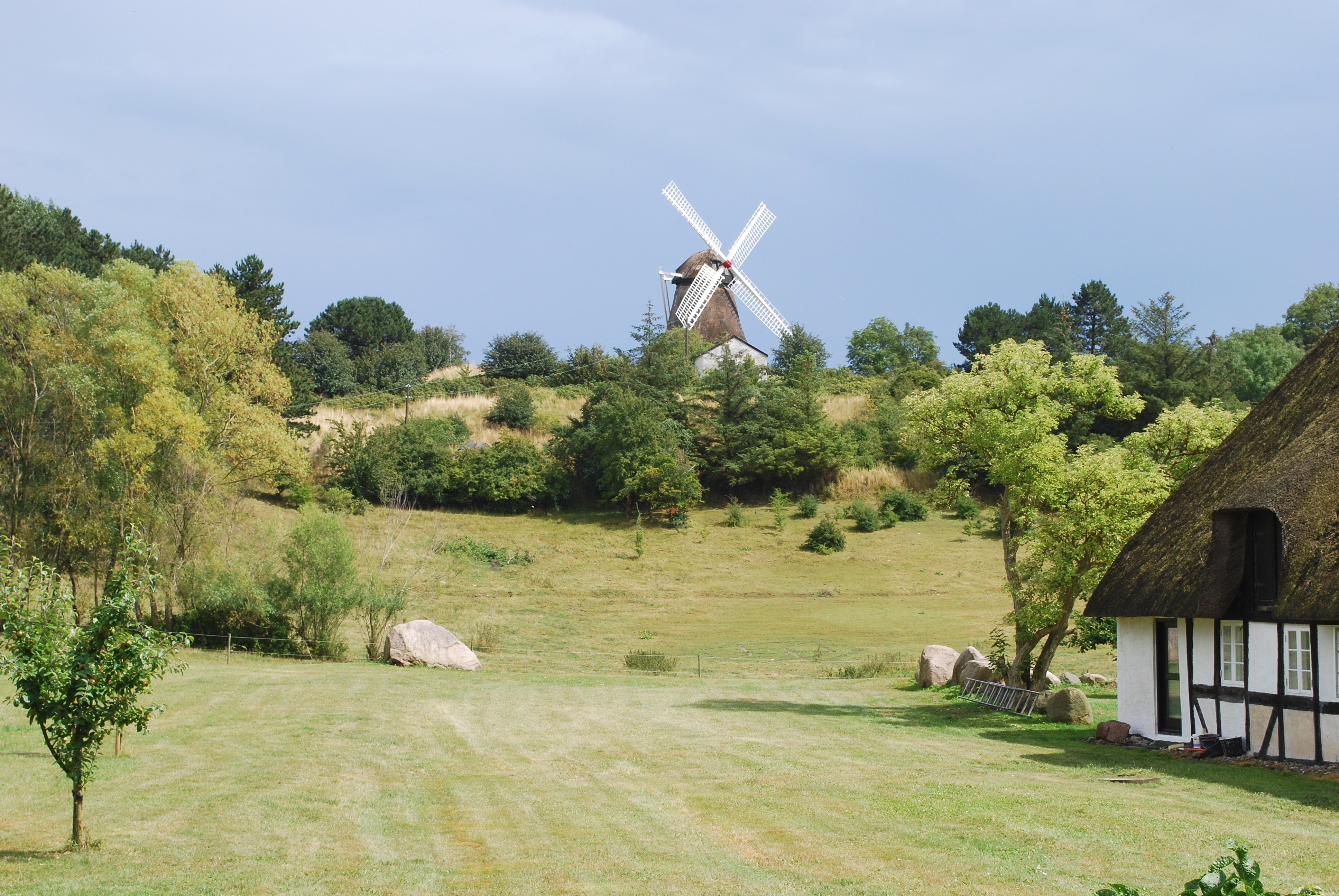 Kunsthøjskolen på Ærø, Vester Mølle, Ærø, Denmark